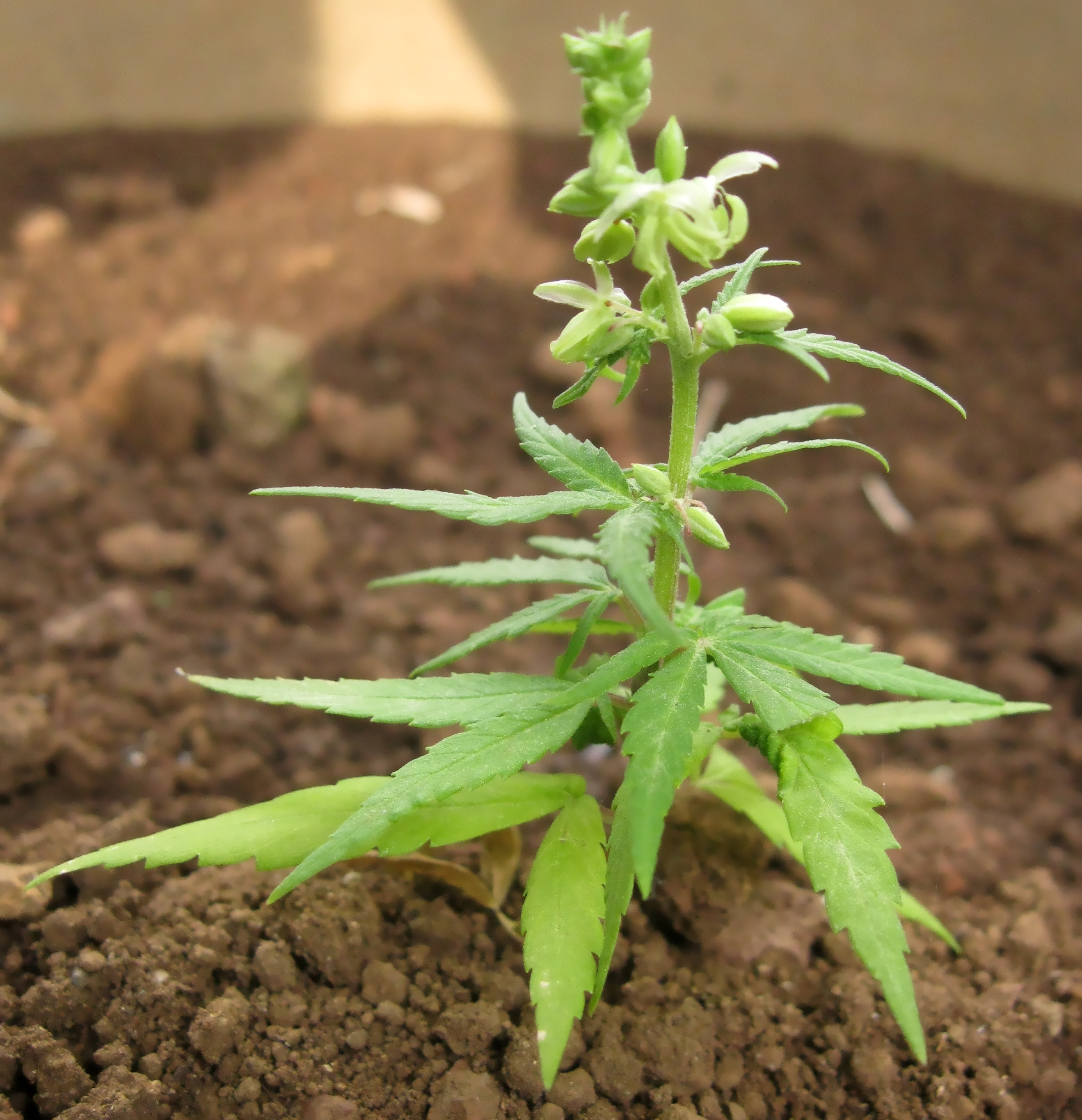 A young Cannabis Sativa plant exposed at the Jardin d'Éden, at Réunion.